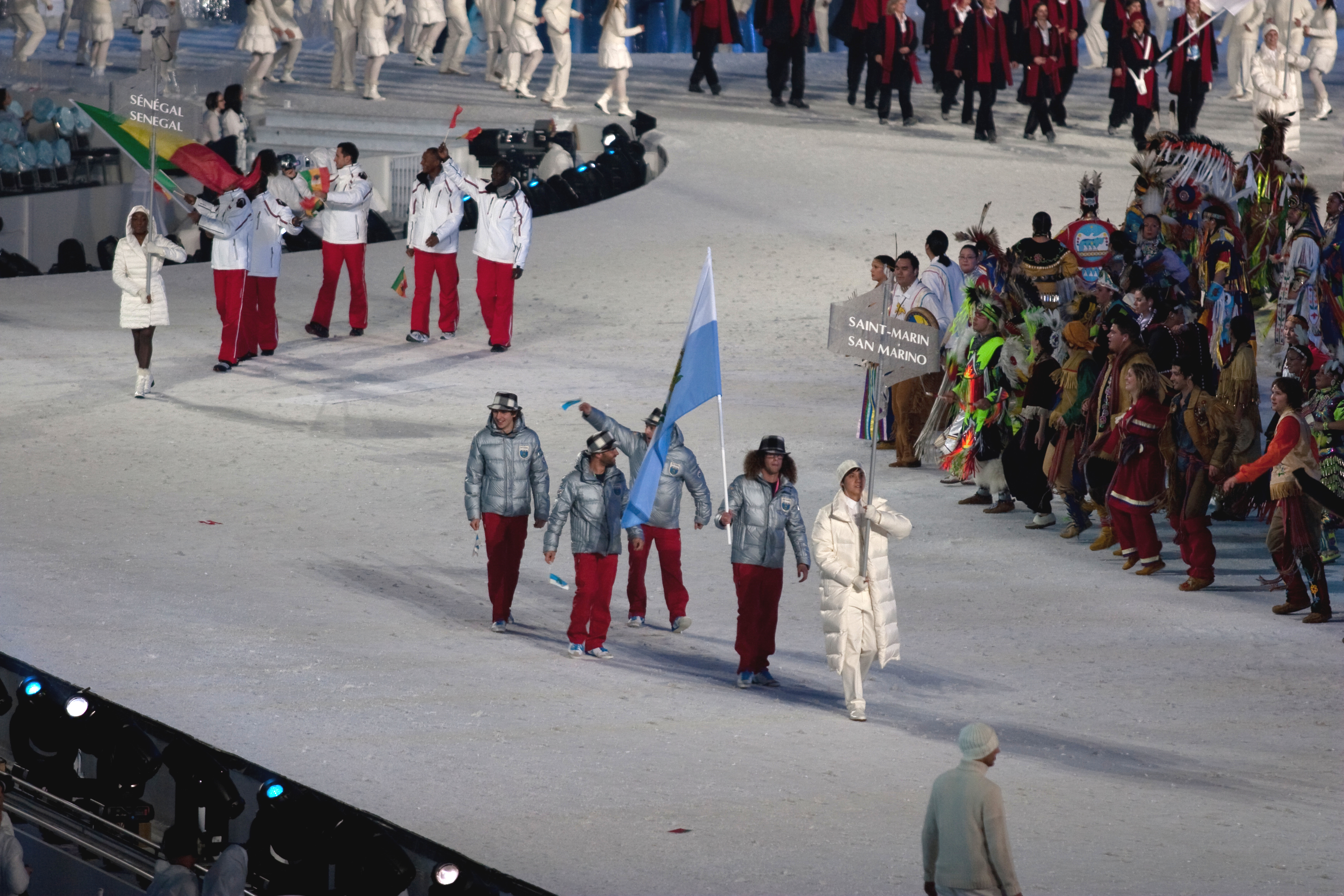 The athletes from San Marino entering the stadium at the opening ceremonies of the 2010 Winter Olympics